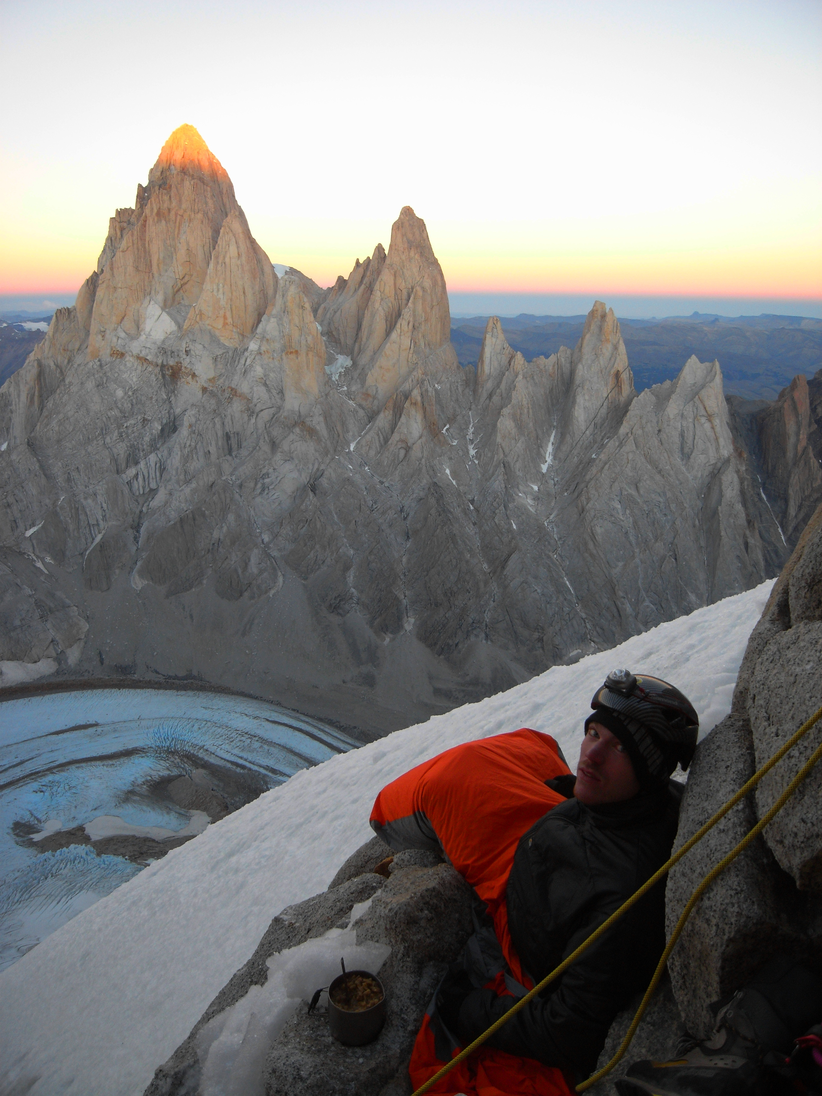 Kristoffer Szilas at a bivouac during an ascent of Cerro Torre in Patagonia. Fitz Roy is seen in the background. Photo by: Kasper Berkowicz.